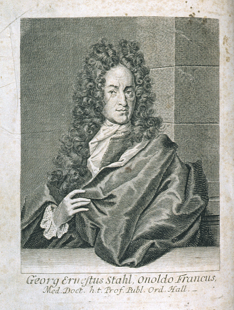 Georg Ernst Stahl (1660–1734), German chemist, physician and metallurgist